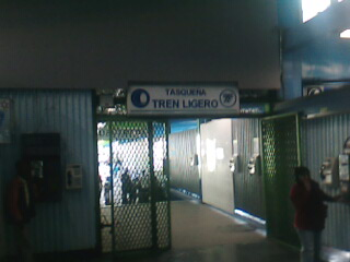 Entrance to the Tren Ligero (light rail) station at Tasqueña on Mexico City's Xochimilco light rail line.